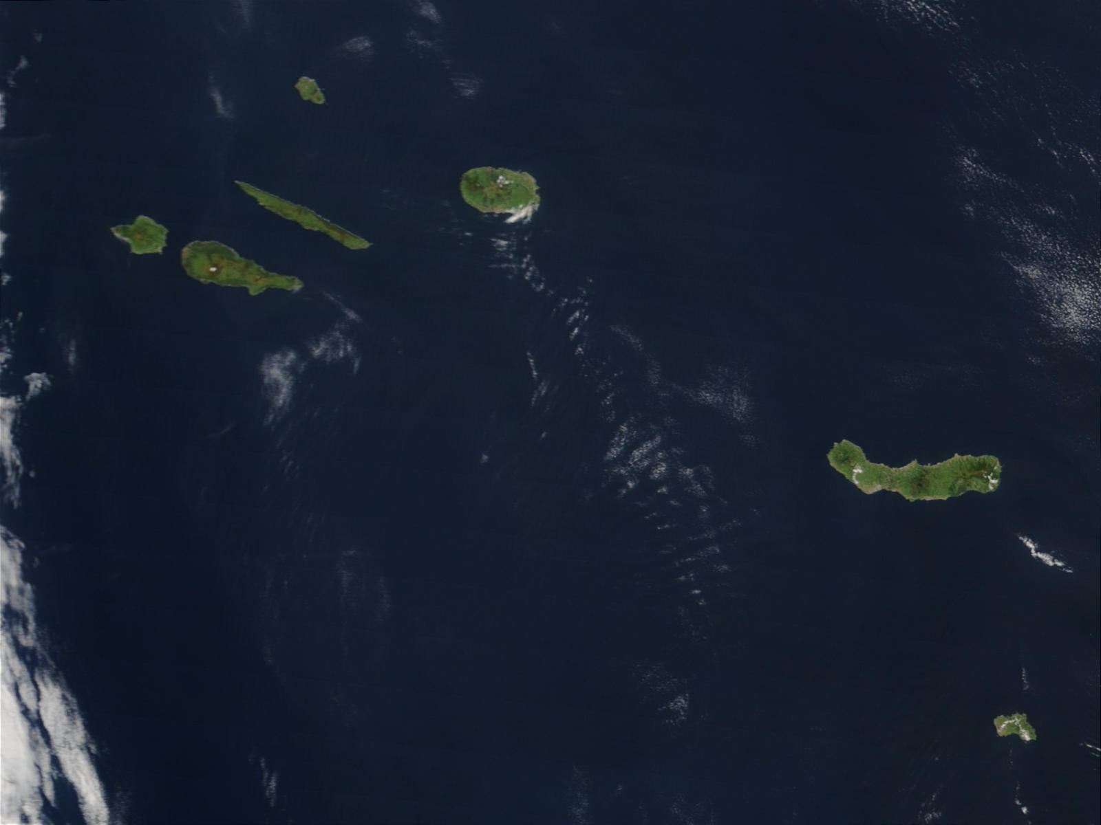 Original caption: Hundreds of miles off the coast of Portugal, the nine islands of the Azores chains are stretched out over the Atlantic Ocean. This Moderate Resolution Imaging Spectroradiometer (MODIS) image from the Terra satellite on May 1, 2003, shows seven of the nine islands: (from left to right) Faial, Pico, Sao Jorge, Graciosa (north), Terceira, Sao Miguel, and Santa Maria.